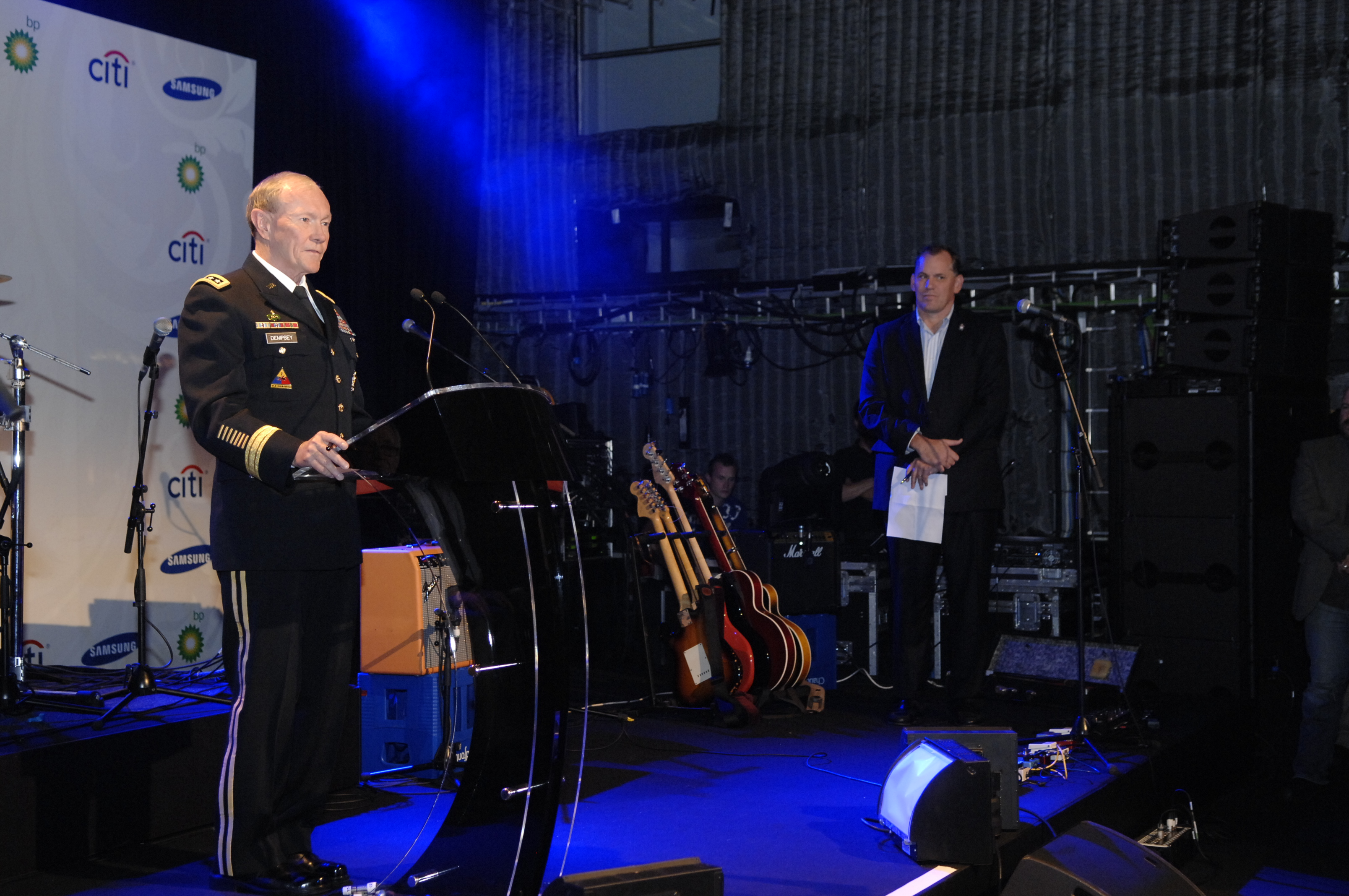 Chairman of the Joint Chiefs of Staff Army Gen. Martin E. Dempsey, left, speaks to members of the U.S. Paralympic Committee, its trustees, military guests and former Paralympians during a Paralympics legacy celebration Aug. 30, 2012, at the Hospital Club in London.